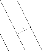 The distance between adjacent planes can always be taken as the distance from the origin of the cell to the first plane.